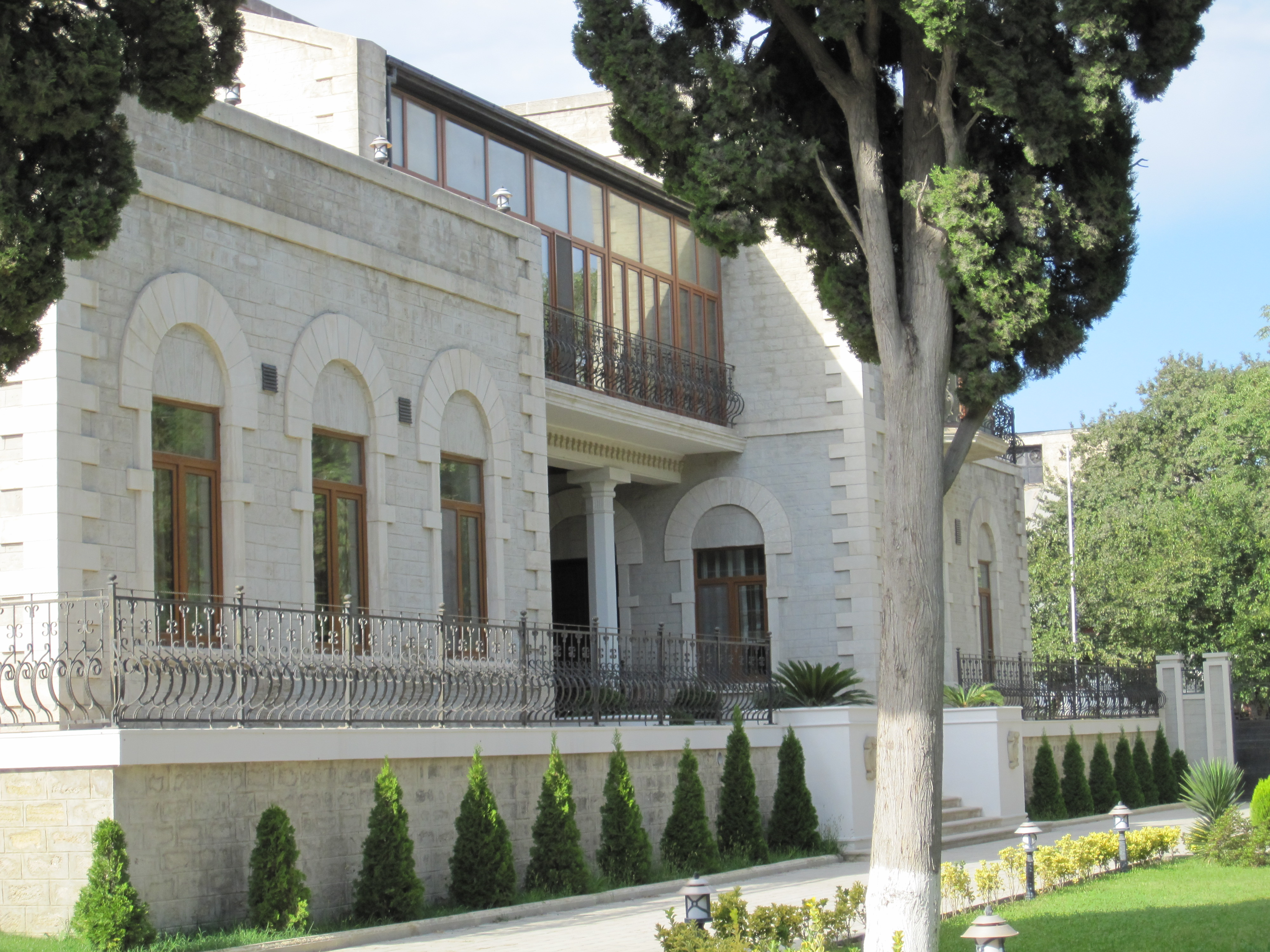 Villa Petrolea (back view)